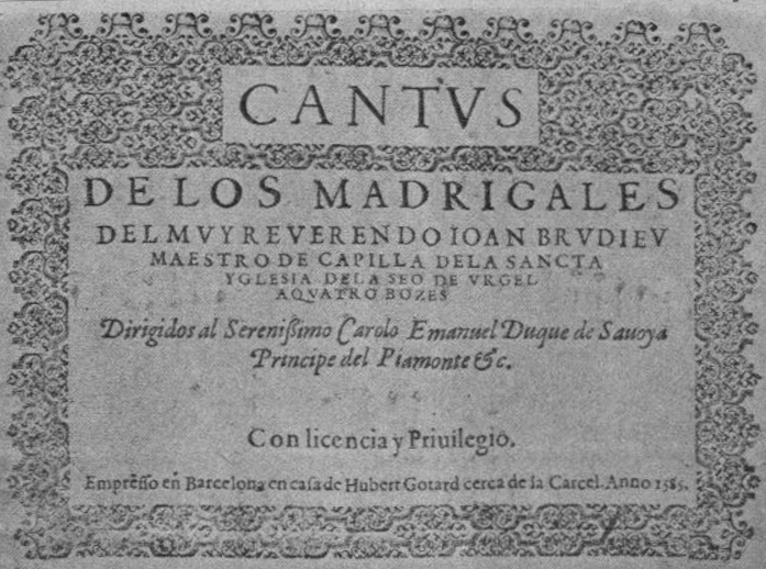 Cover of the Madrigals of Joan Brudieu, reproduced in La Revista Musical Catalana magazine of August, 1906